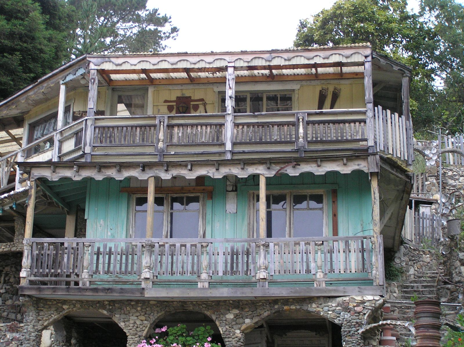 Nitwit Ridge house in Cambria, California